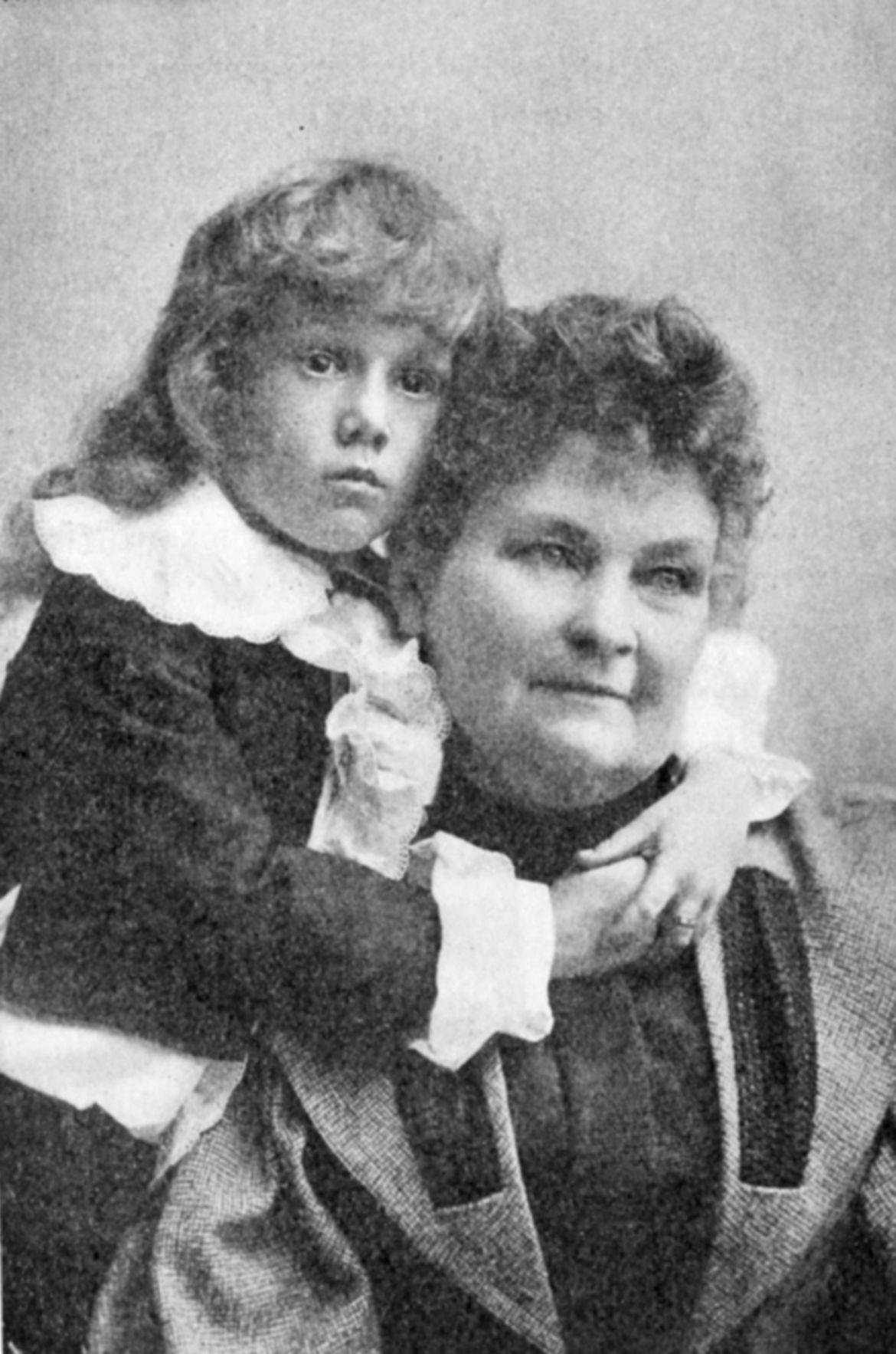 Image from Douthit's Souvenir of Western Women (1905)